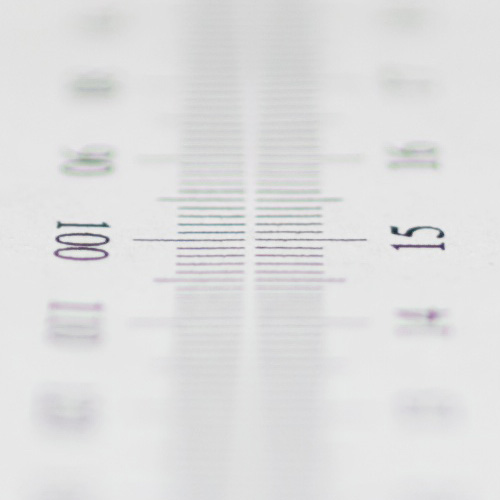 Longitudinal chromatic aberrations of Sigma AF 35mm f/1.4 lens